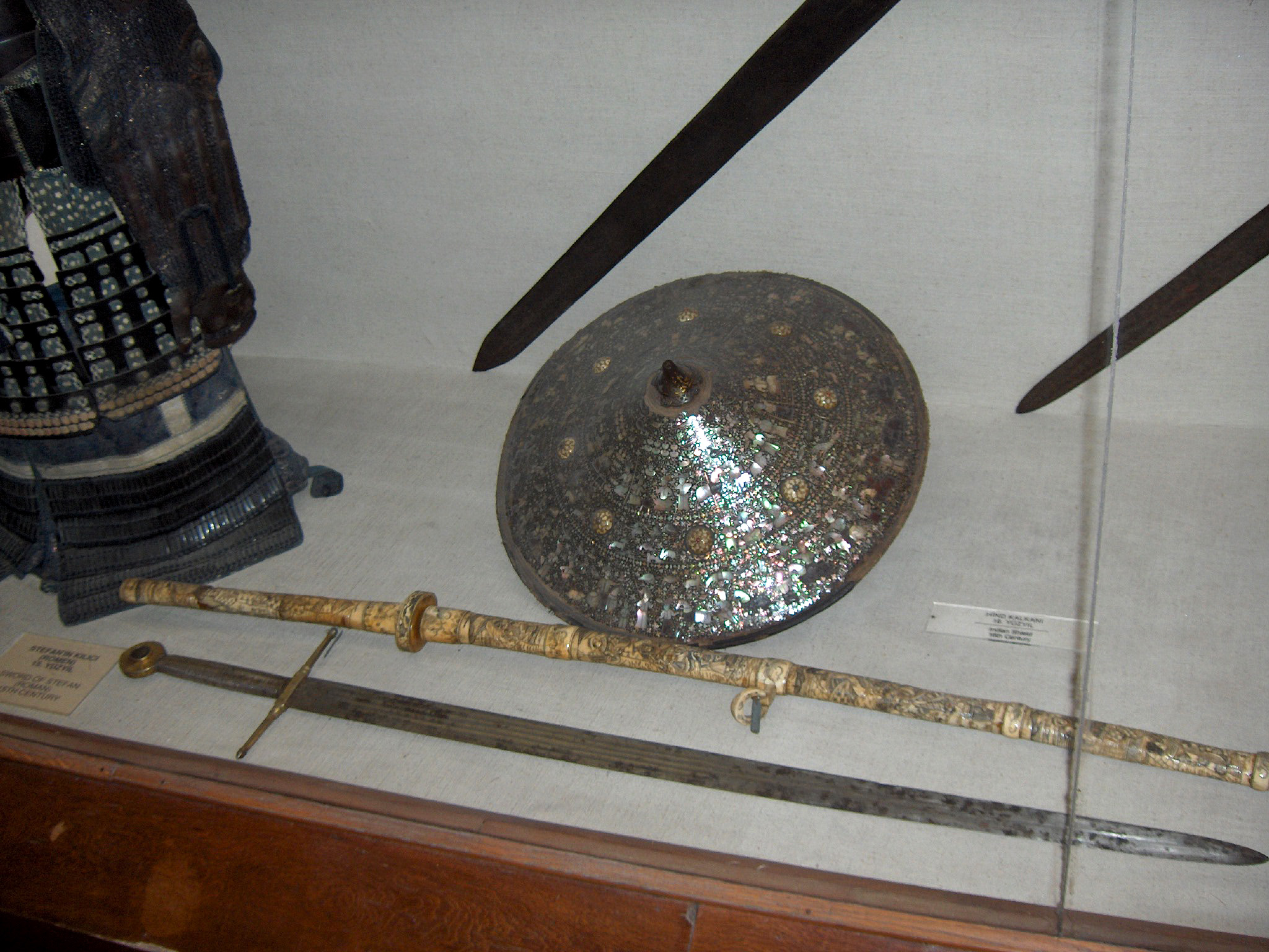 Indian round shield inlaid with nacre (16th c.); katana, samurai sword; sword of Stephen III of Moldova; Topkapı Palace, Istanbul, Turkey.